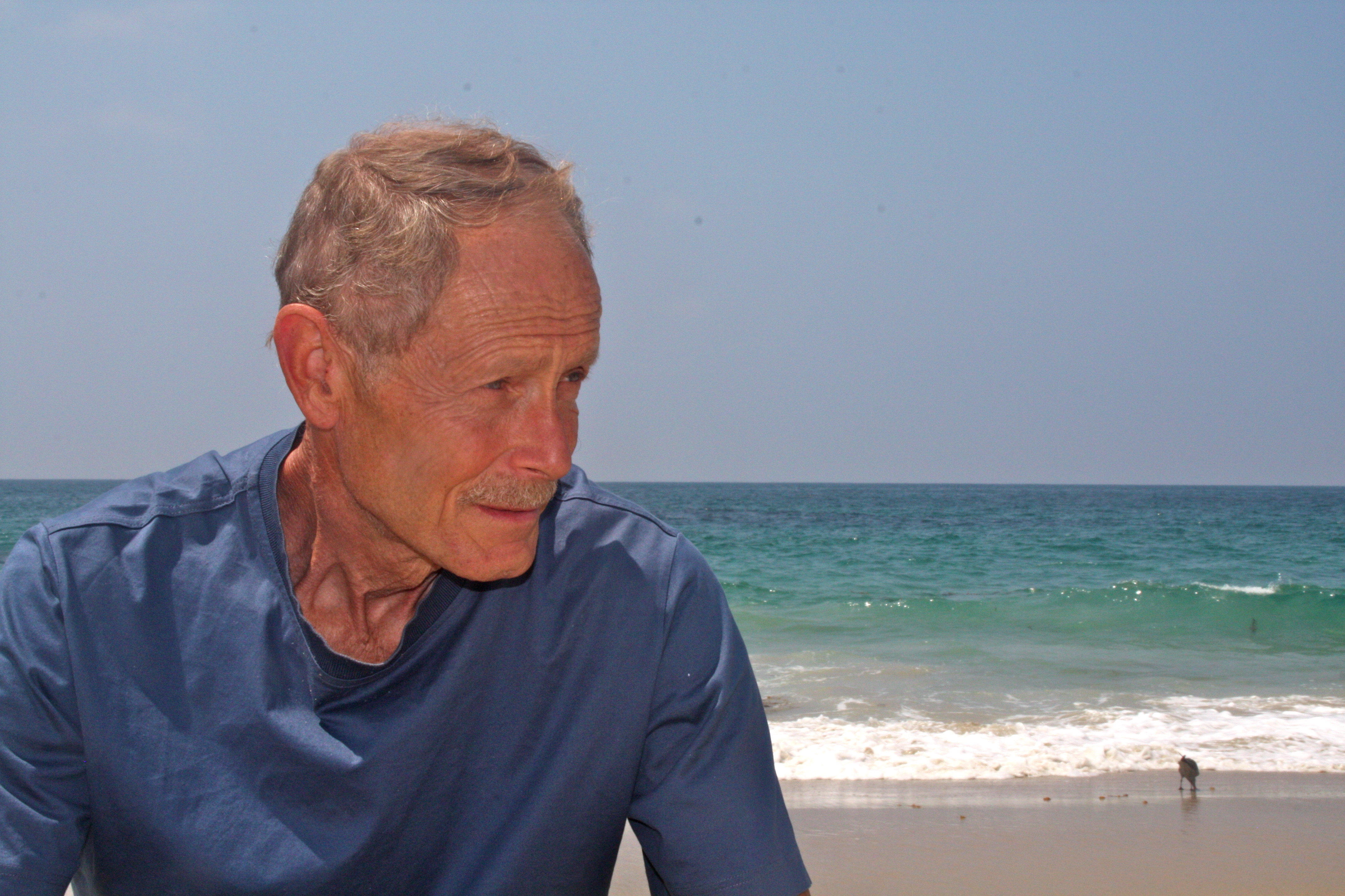 Erri De Luca is afamous Italian writer and journalist (Napoli, 1950)